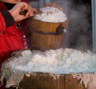 Serving rice in a local restaurant in Kunming, China.